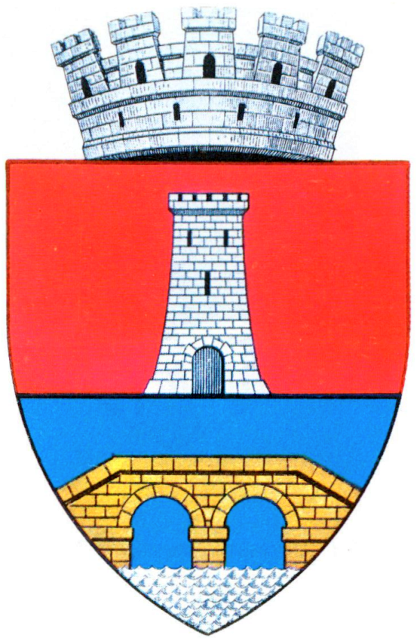 Interwar coat of arms of Slatina, Olt County, Kingdom of Romania.